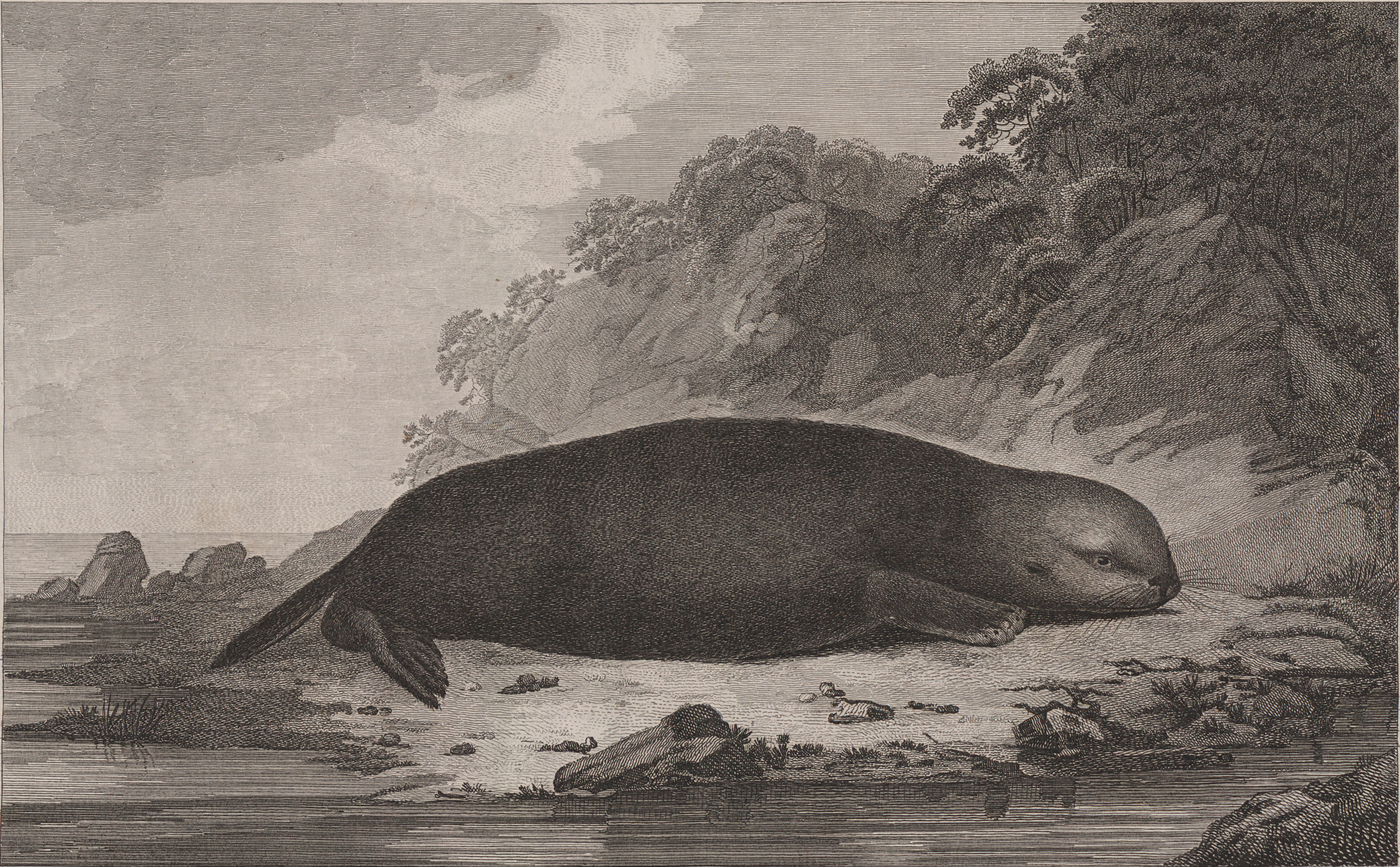 S. Smith, after John Webber. " Sea Otter" in James Cook. A Voyage to the Pacific Ocean . . . Performed under the Direction of Captains Cook, Clerke, and Gore . . .1776, 1777, 1778, 1779, and 1780. London: W. Strahan, 1780. Engraving. (Library of Congress). Image cropped, colors and tone slightly adjusted.